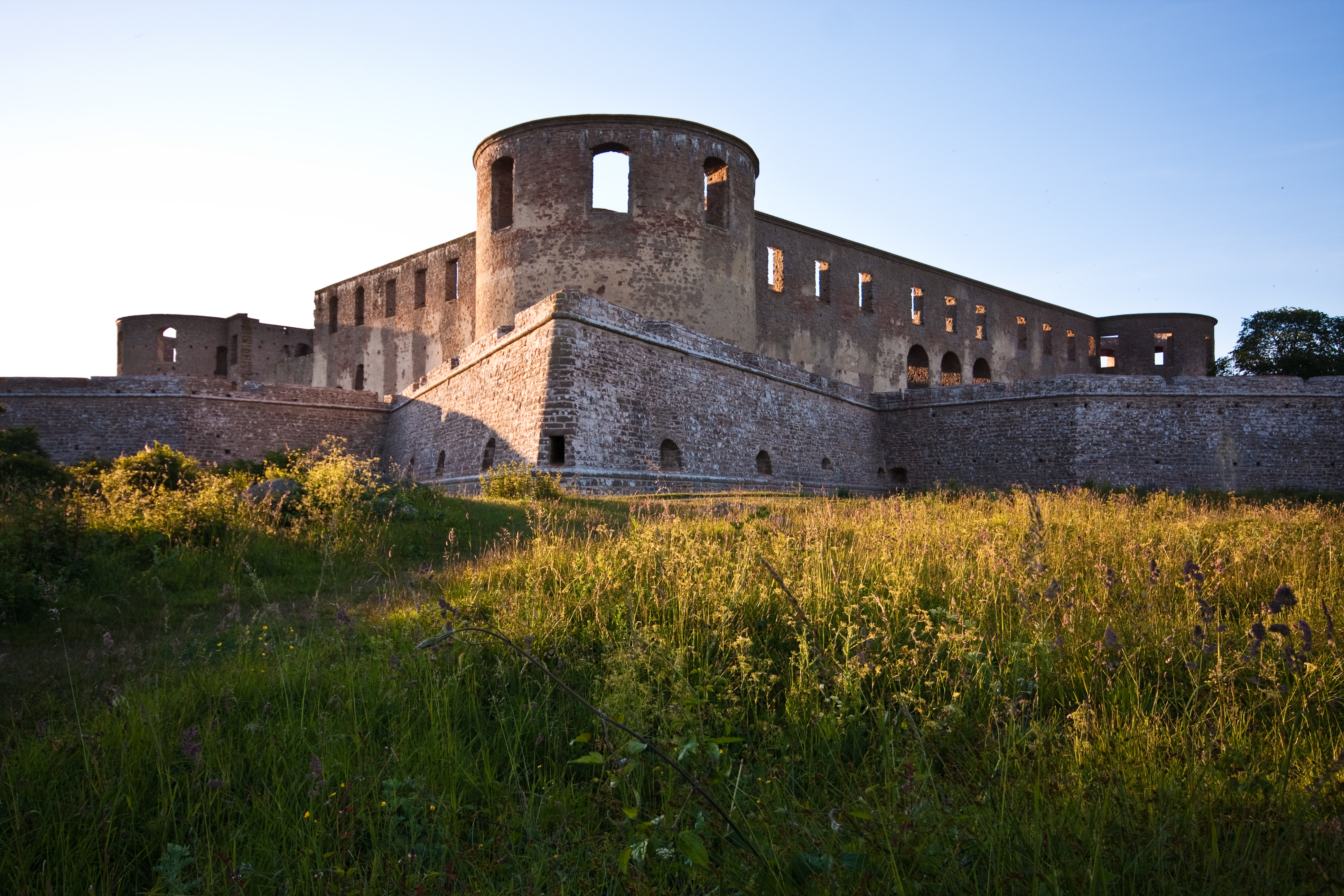 The ruin of Borgholm Castle